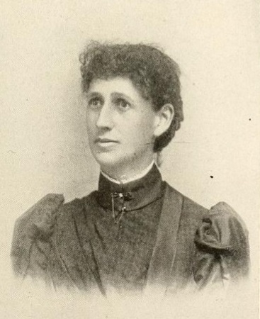 Photographic portrait of American poet Rose Hartwick Thorpe (1850–1939). From American Women: Fifteen Hundred Biographies with Over 1,400 Portraits, Frances E. Willard and Mary A. Livermore, editors. Mast, Crowell & Kirkpatrick, 1897 (revised edition from 1893), vol. 2, p. 714